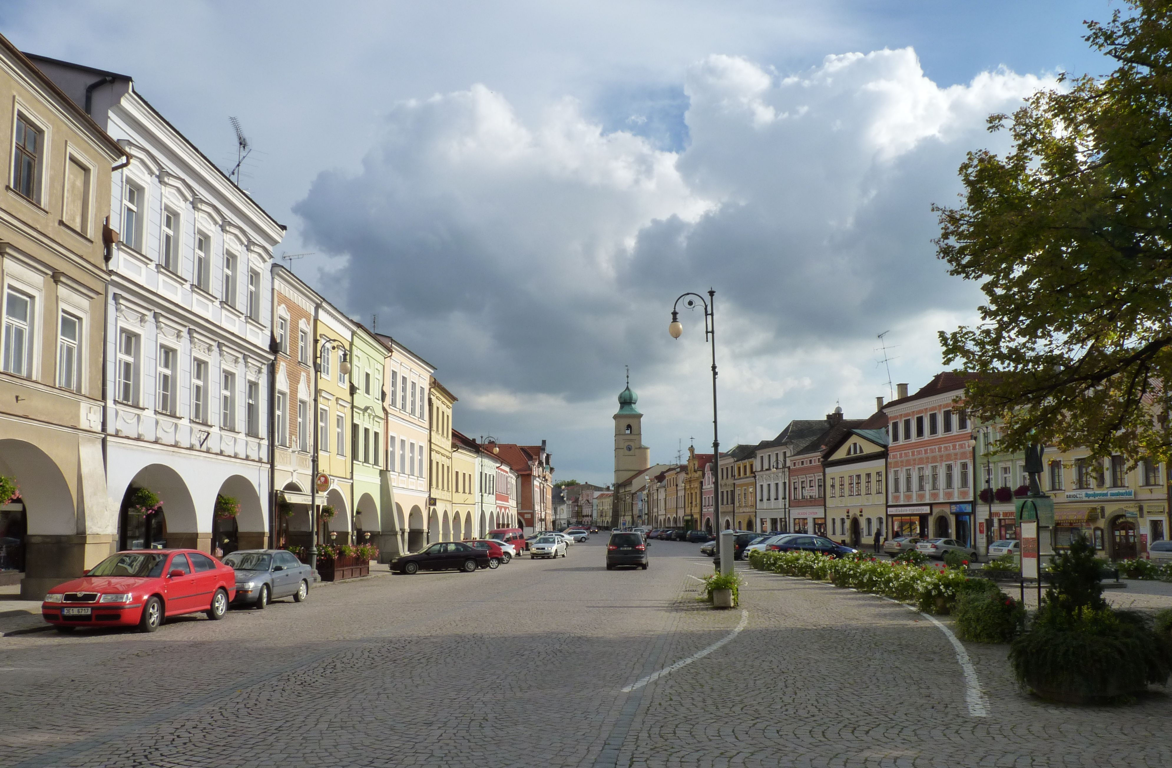 Smetana's square, Litomyšl, Svitavy District, Pardubice Region, Czech Republic